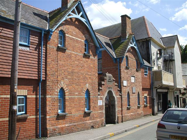 Alms House, Padstow Looking south-east